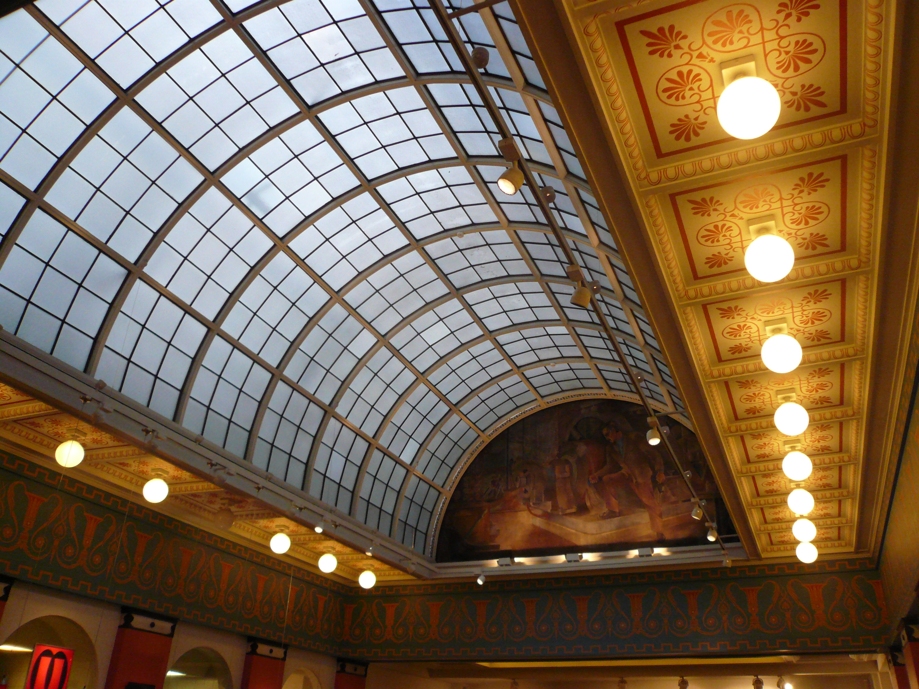 Telegrafbygningen, Bergen, Norway